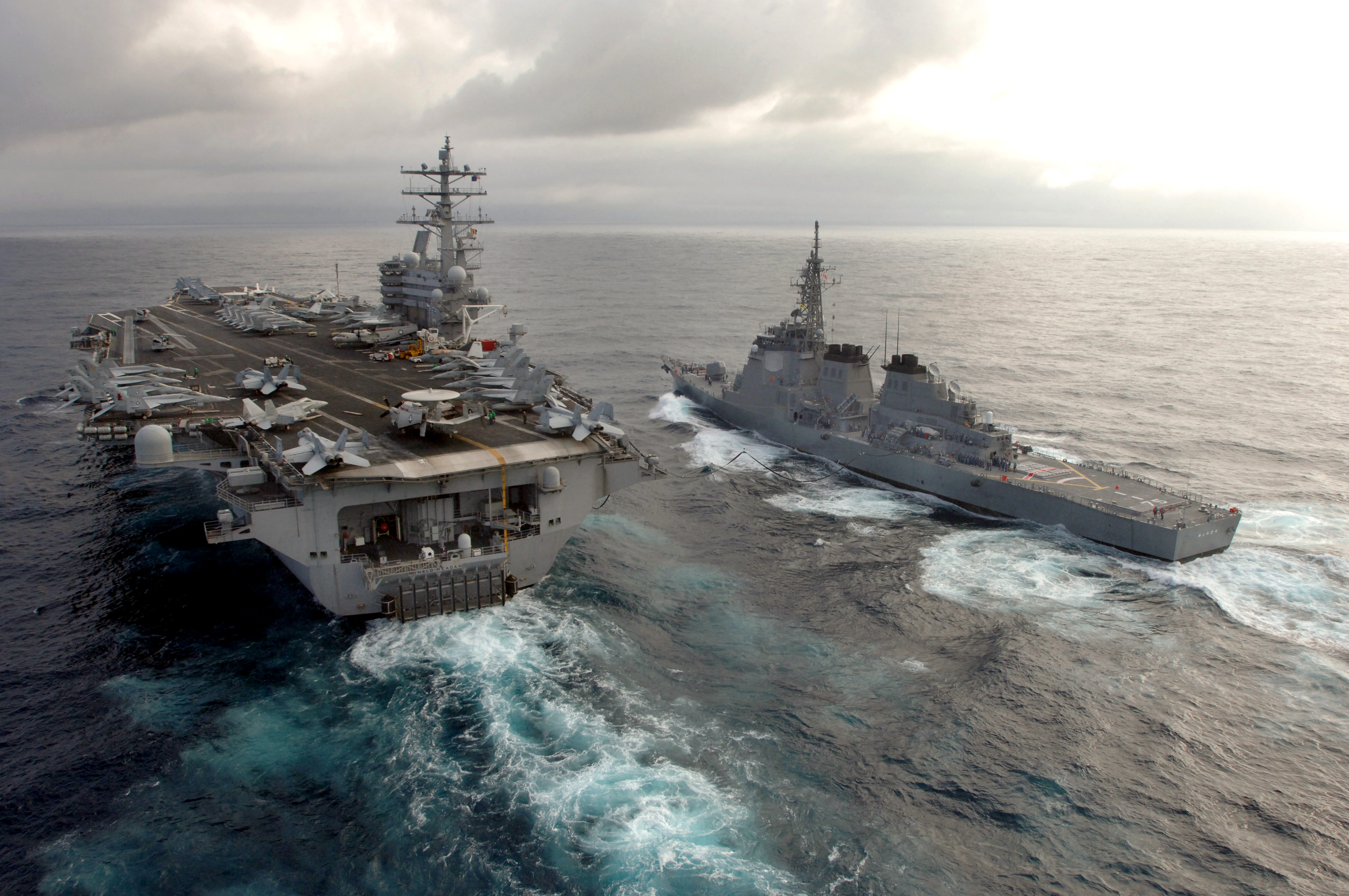 PHILIPPINE SEA (March 17, 2007) - USS Ronald Reagan (CVN 76) connects to Japan Maritime Self Defense Force (JMSDF) guided missile destroyer JS Myoko (DDG 175) during a fueling at sea (FAS) evolution. Ronald Reagan Strike Group conducted a passing exercise (PASSEX) with the JMSDF as part of a deployment to support operations in the 7th Fleet area of responsibility. U.S. Navy photo by Chief Mass Communication Specialist Spike Call (RELEASED)